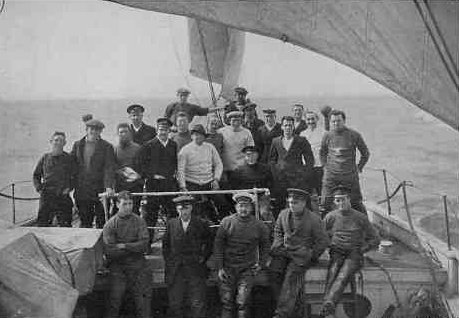 Members of Sir Ernest Shackleton's Endurance expedition, 1914-16